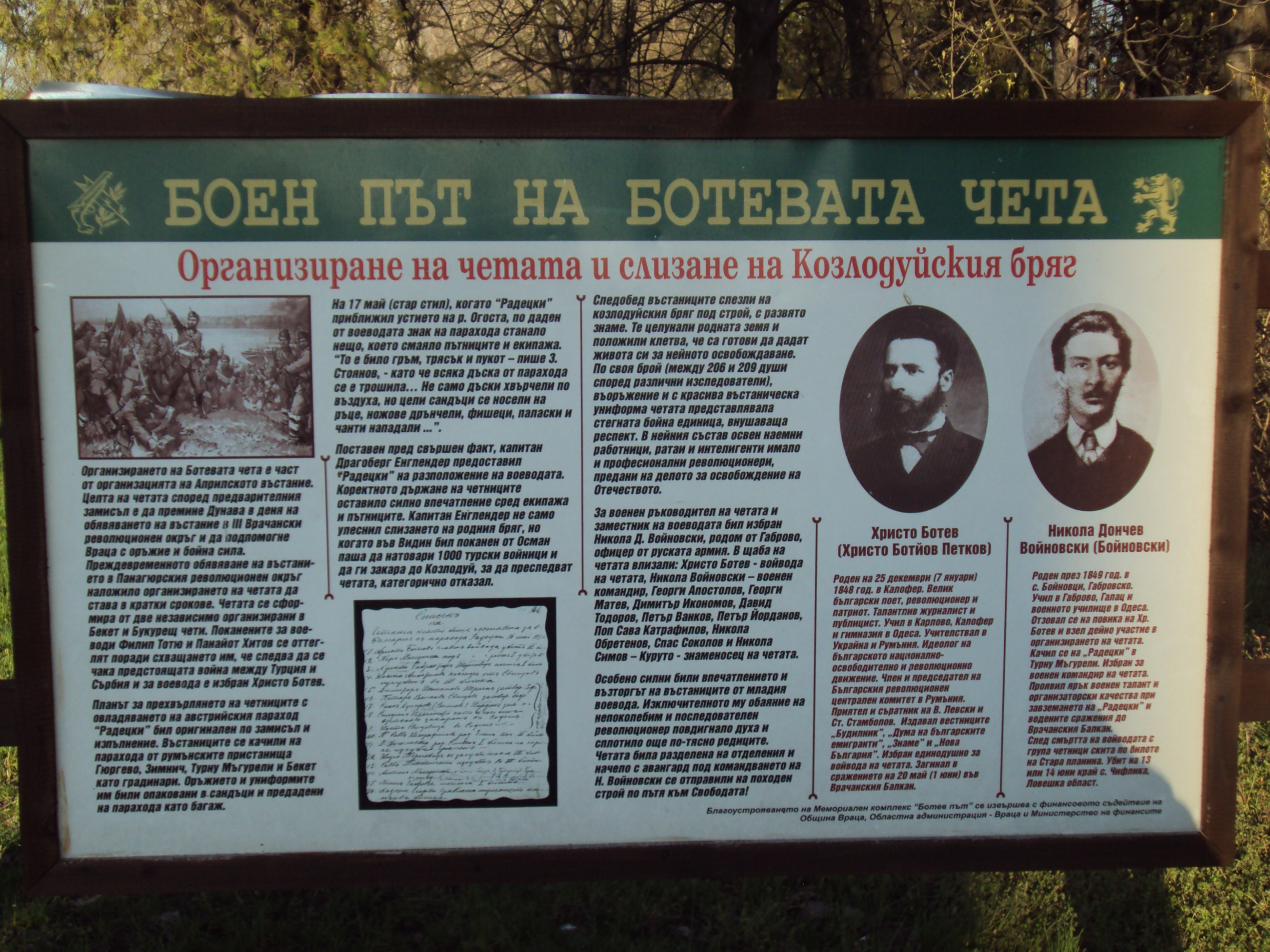 National Museum Steamship "RADETZKY", Town of Kozloduy, Bulgaria